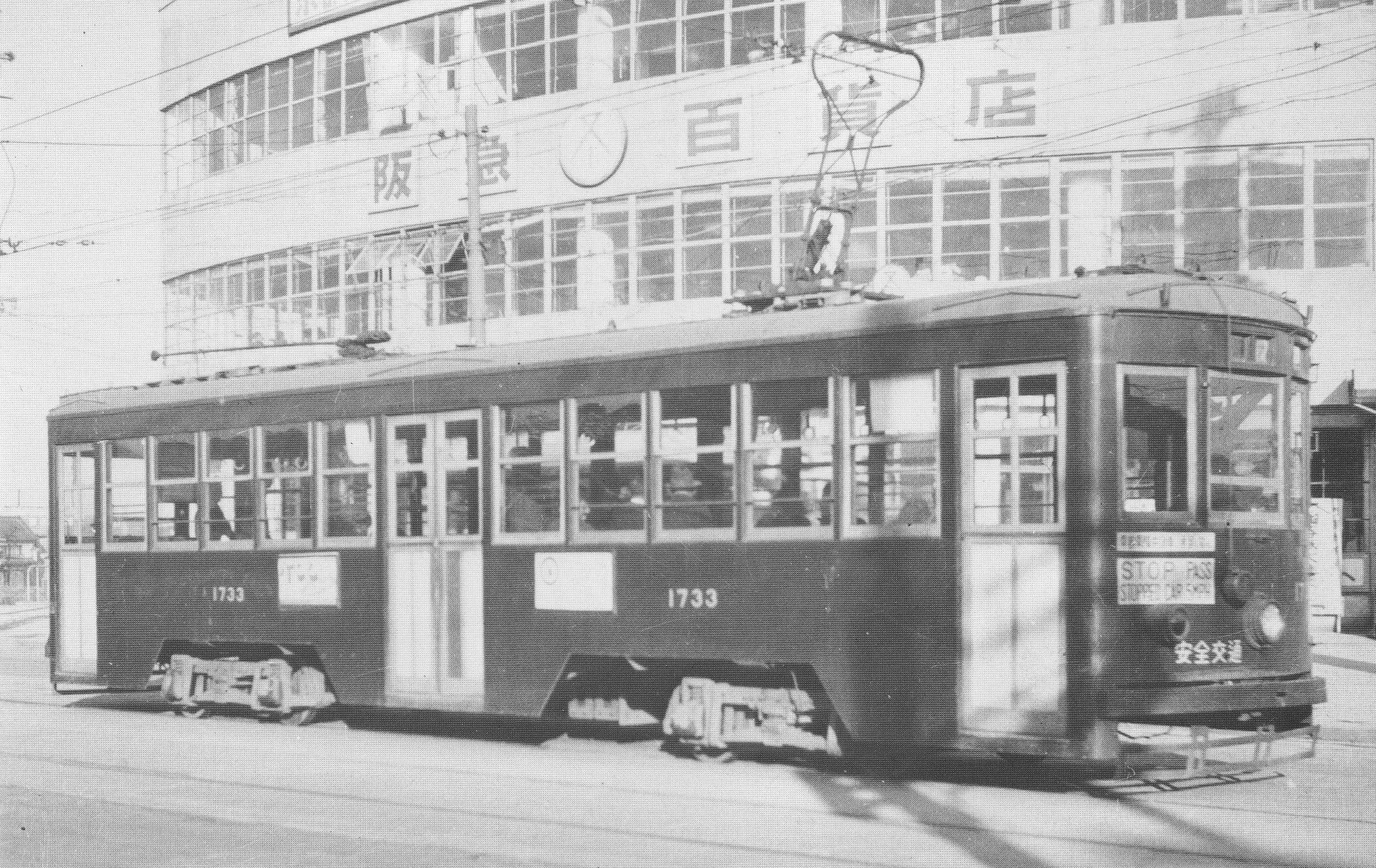 Osaka City Tram 1733.